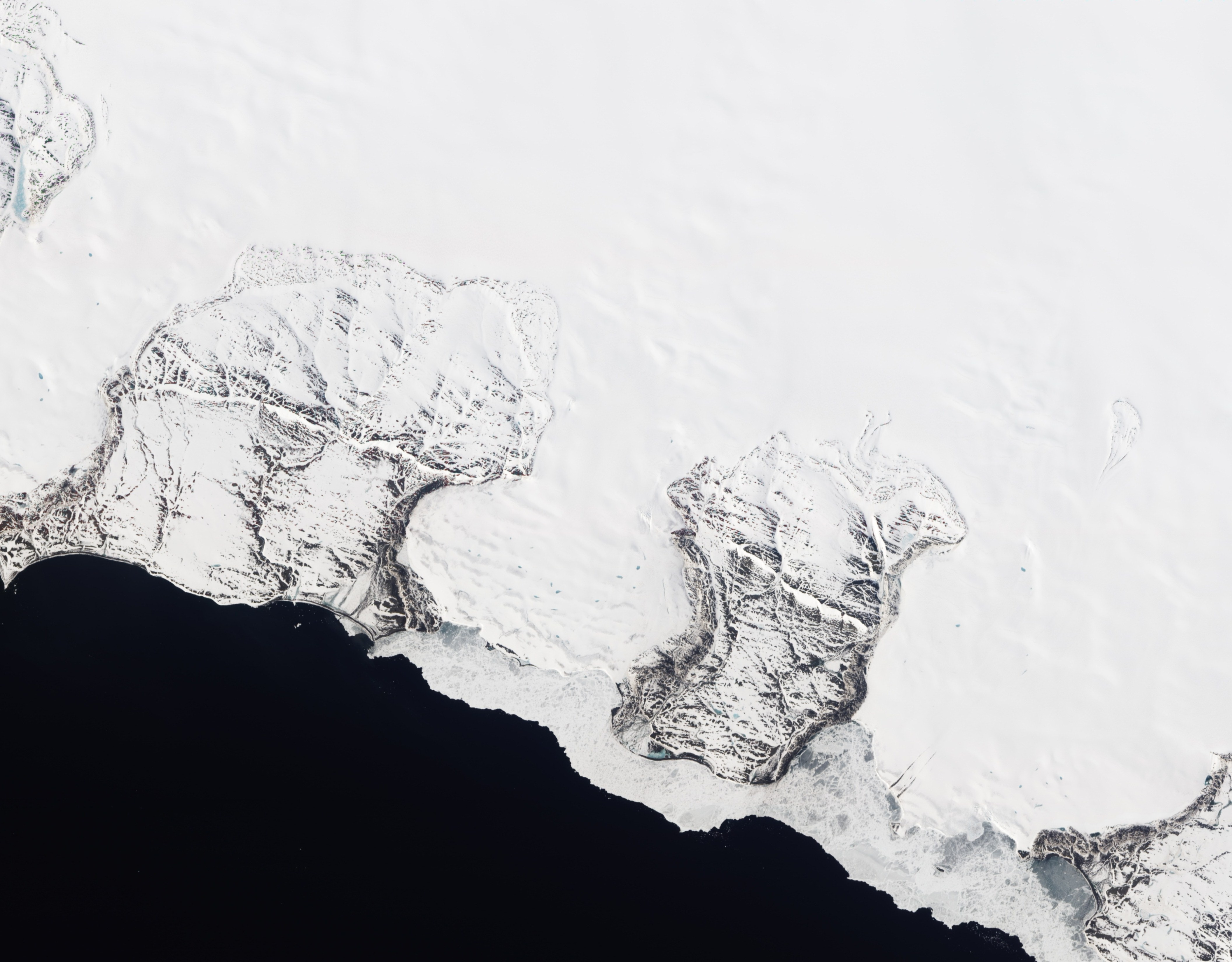 Natural-colour image of Roze Glacier fringed by sea ice. The image is rotated and north is toward the upper right. The glacier pushes slowly seaward between two rocky ridges. Uneven snow cover on the rock surfaces creates a patchwork of brown and white. Some snow also rests on the adjacent sea ice, which appears in shades of white and gray. In the east, a large patch of gray ice immediately offshore may owe its color to a layer of melt water or simply a lack of snow cover. On the glacier itself, isolated pools of melt water form ovals and slivers of blue-gray. Dwarfing the melt ponds, two long parallel stripes extend southward toward the coast. The stripes look like debris along the sides of a relatively fast-flowing ice stream, which may have picked up rocks and dirt from an upslope rock outcrop.